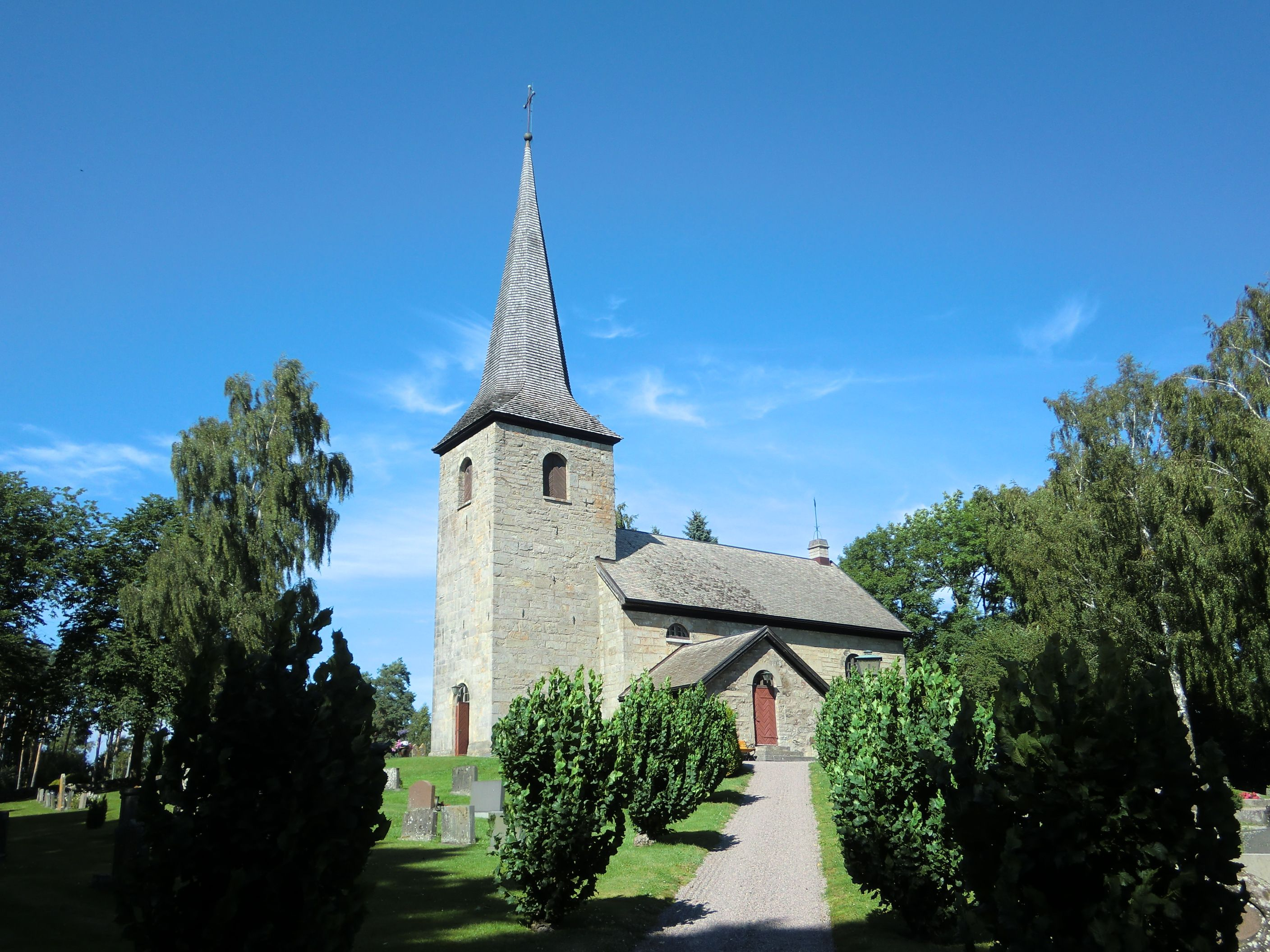 Gösslunda church, Kålland, Sweden